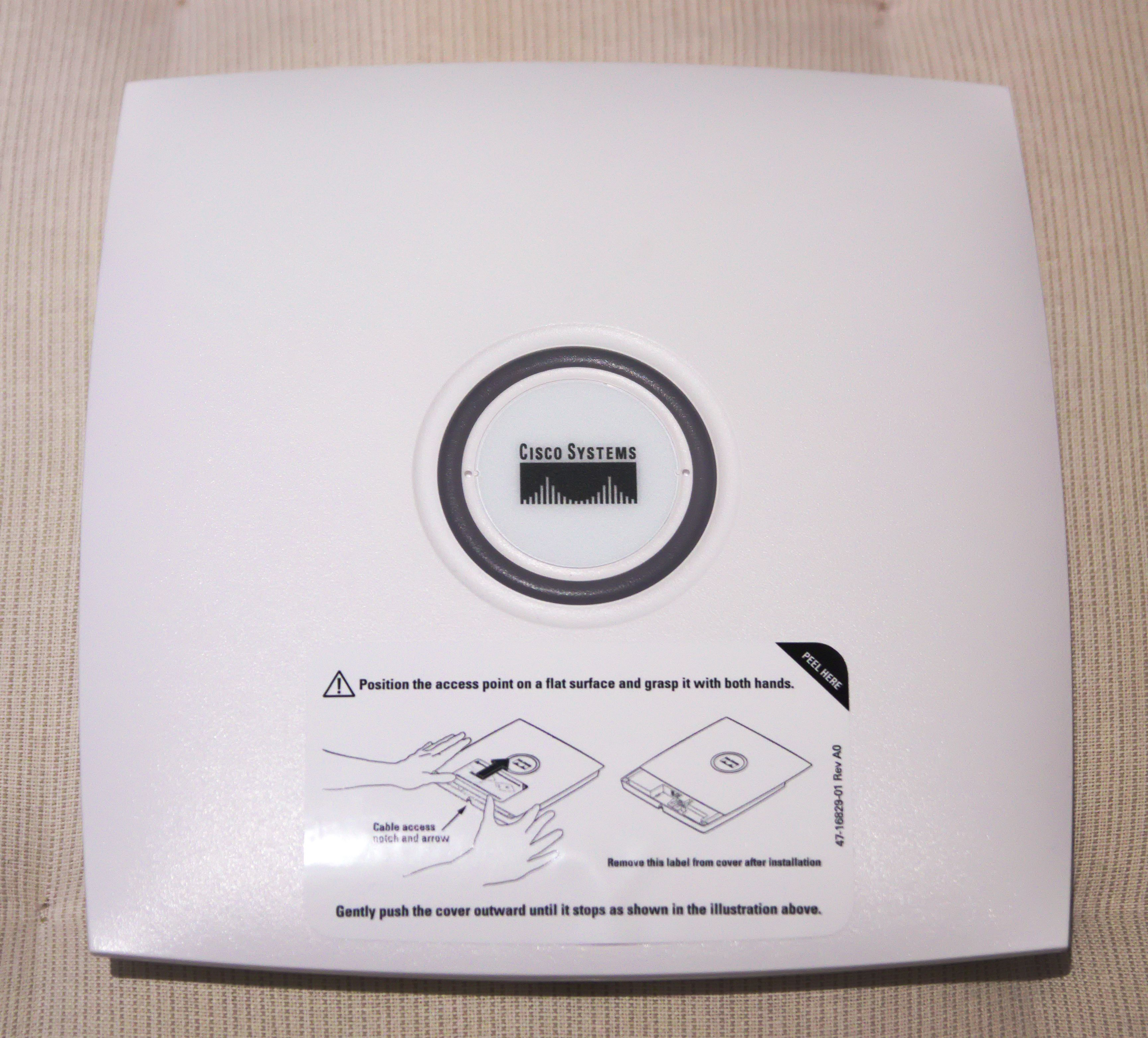 Cisco 1131AG wireless access point with the case closed.